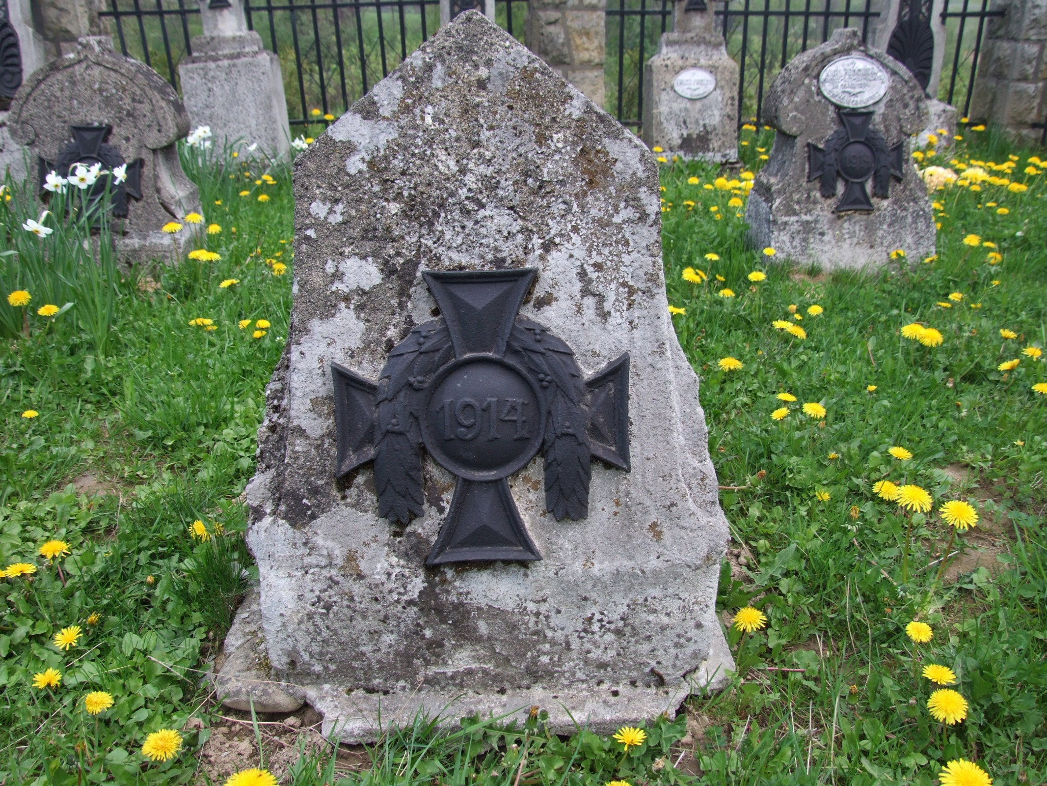 World War I Cemetery nr 361 in Krasne-Lasocice